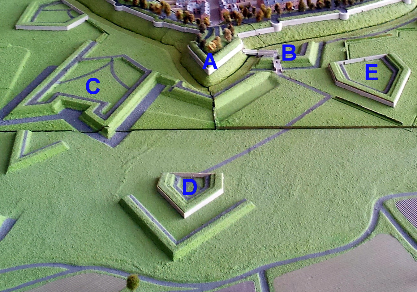 Detail of the Maquette of Maastricht with a view of the fortifications to the west of the city around Brusselsepoort. The scale model was made in 1974-1982, a genuine copy of the mid-18th-century original made for King Louis XV of France (now in the Palais des Beaux-Arts in Lille).